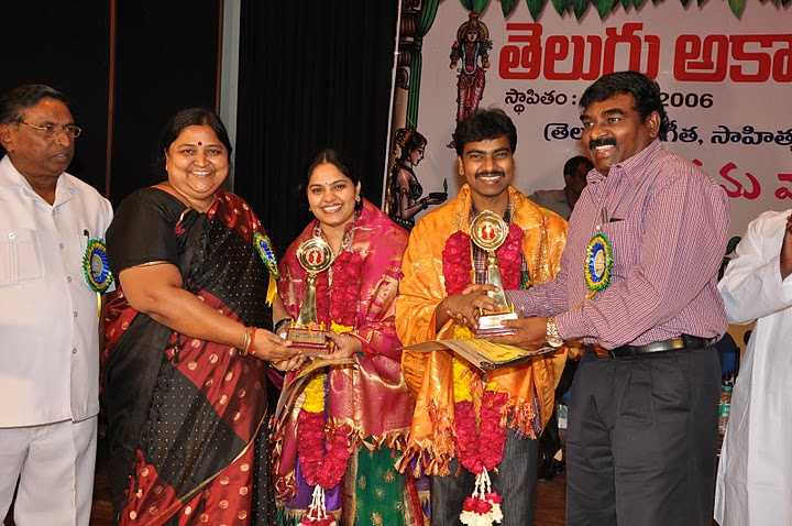 Mallikarjun and Gopika Poornima at TANA